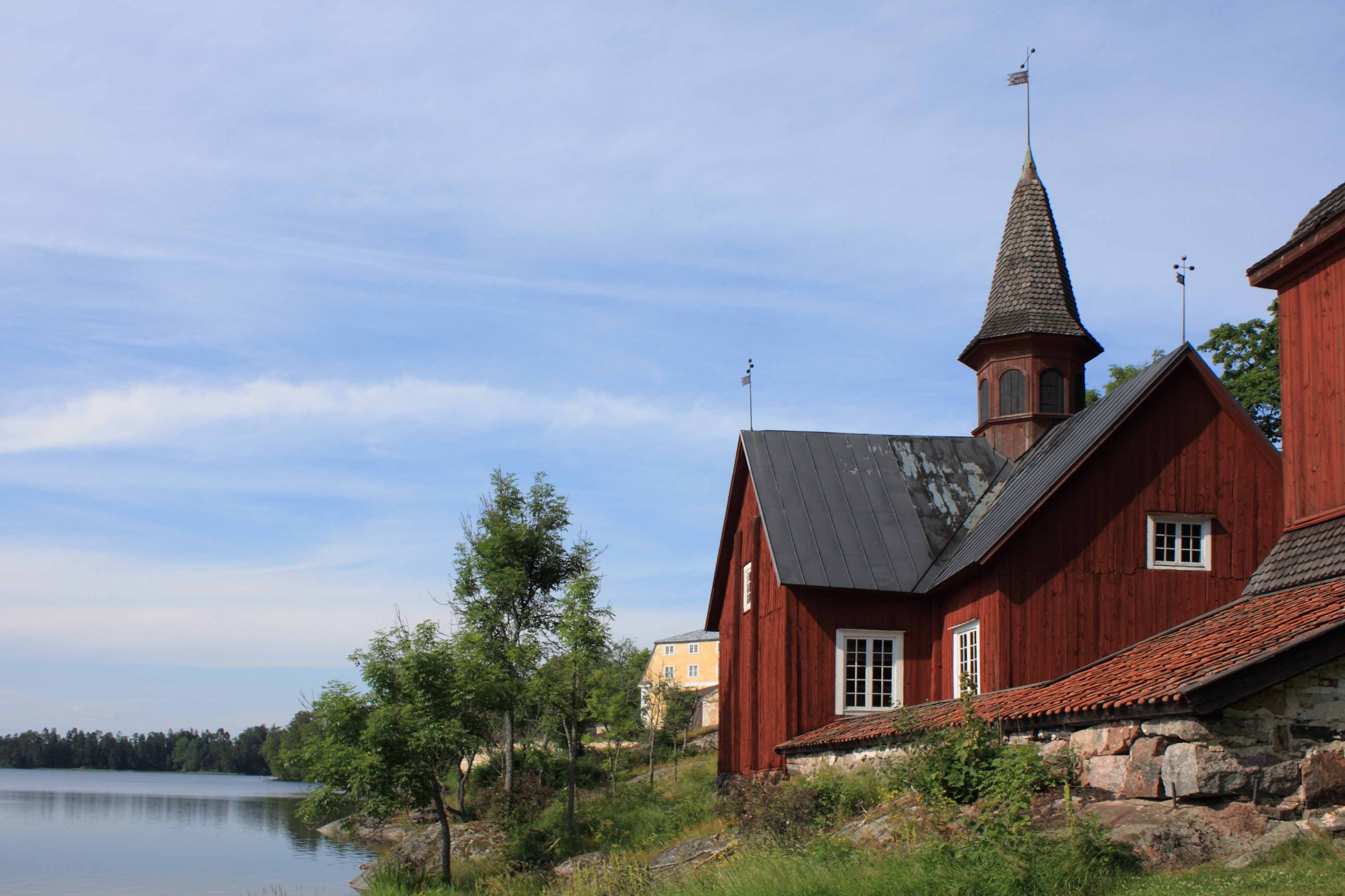 Fagervik church and manor in the background by Bruksträsket lake